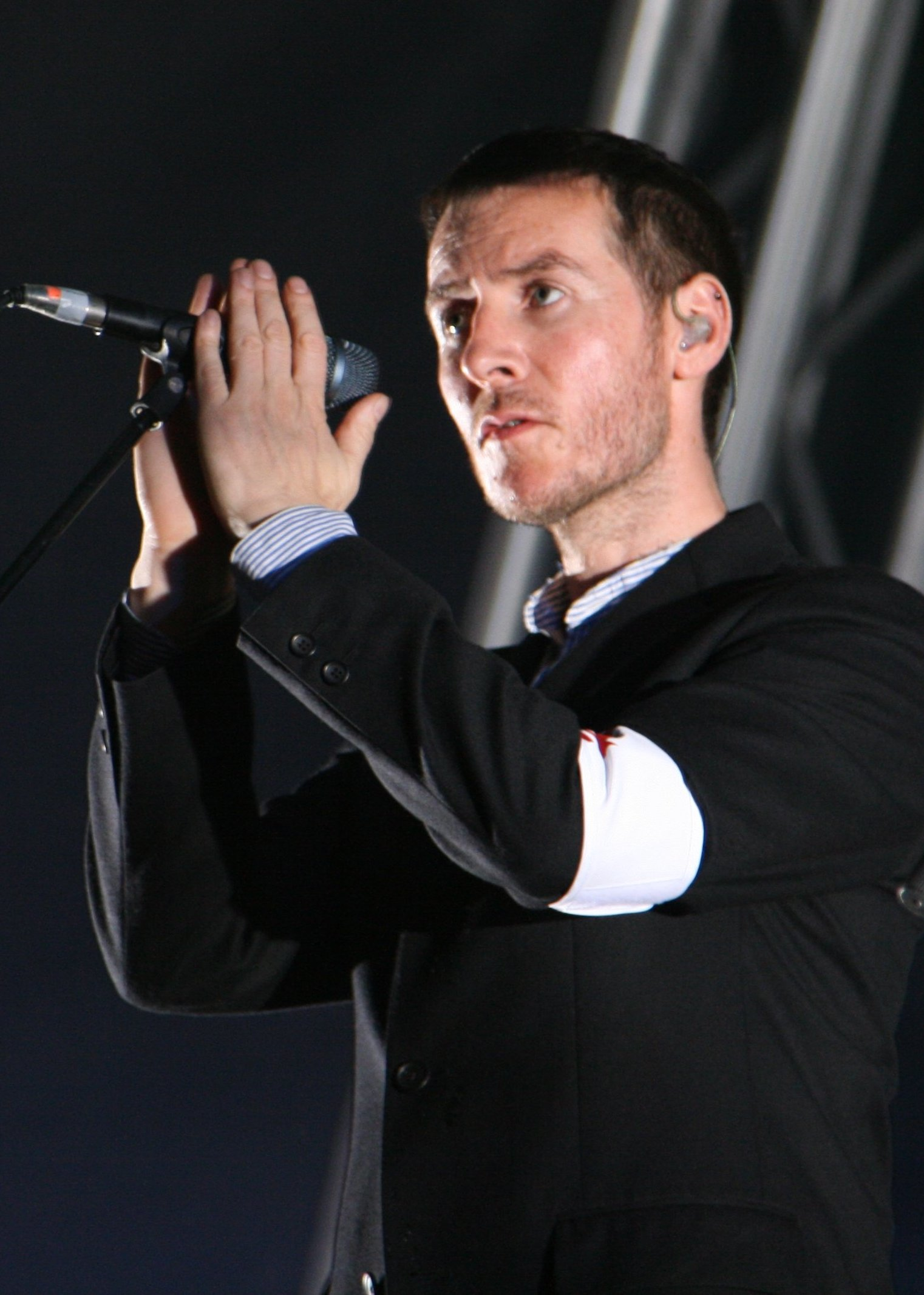 Robert Del Naja (membre fondateur de Massive Attack) - concert à Barcelone (septembre 2007)Robert Del Naja (founding member of Massive Attack) - concert in Barcelona (september 2007)